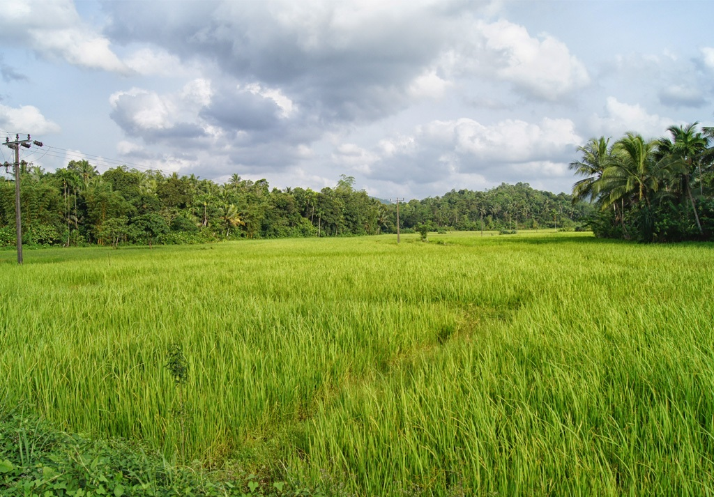 Ingiriya Agriculture01